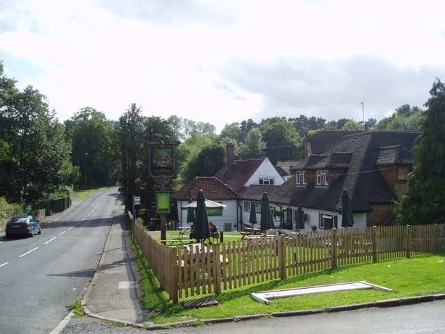 The Old Mill public house, East Grinstead